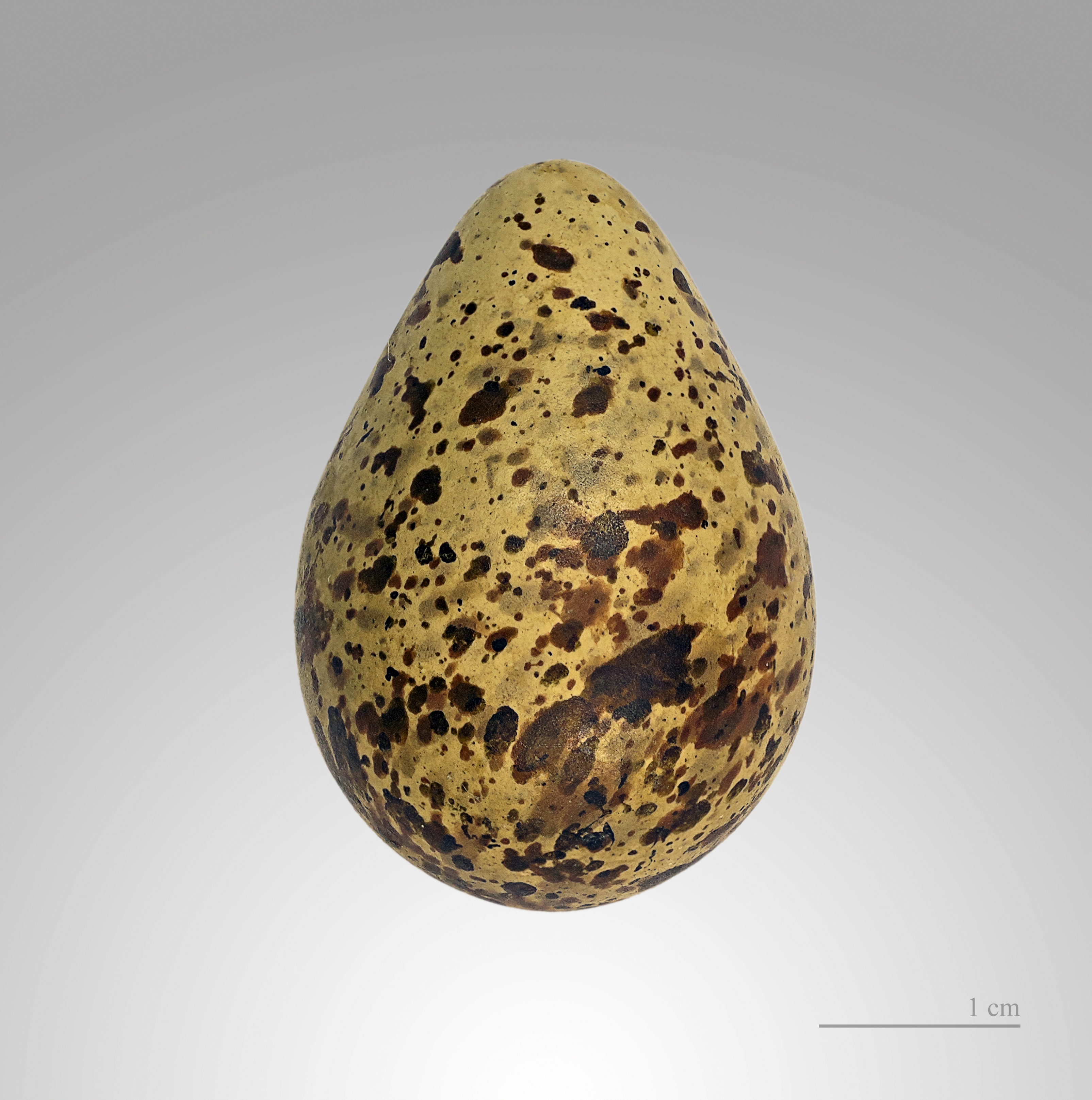 Egg of Curlew Sandpiper. Collection of Jacques Perrin de Brichambaut.